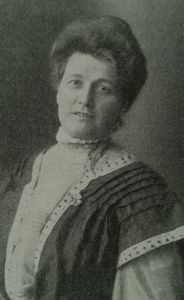 Henny Koch (1854-1925)